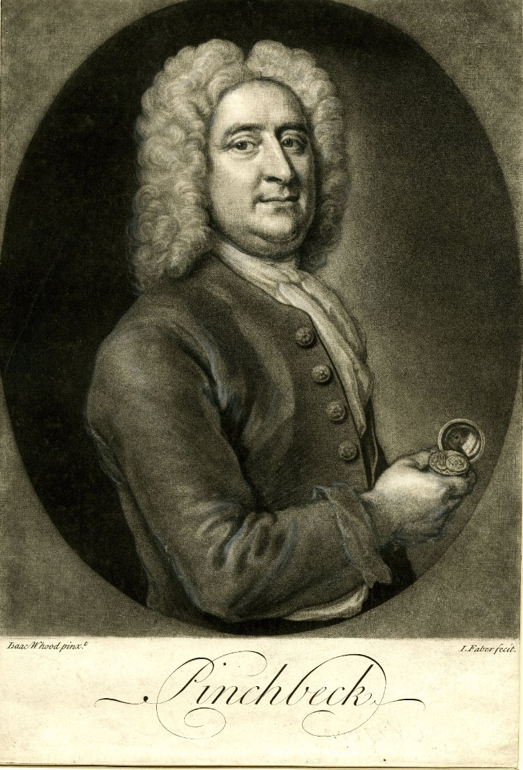 English clockmaker Christopher Pinchbeck, the elder